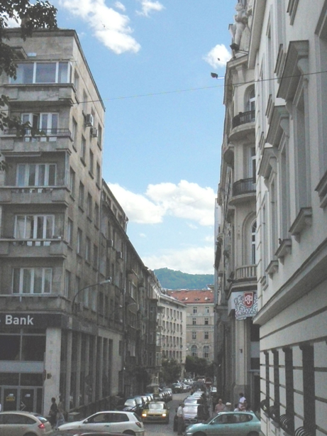 Georgi Benkovski Street (Sofia)